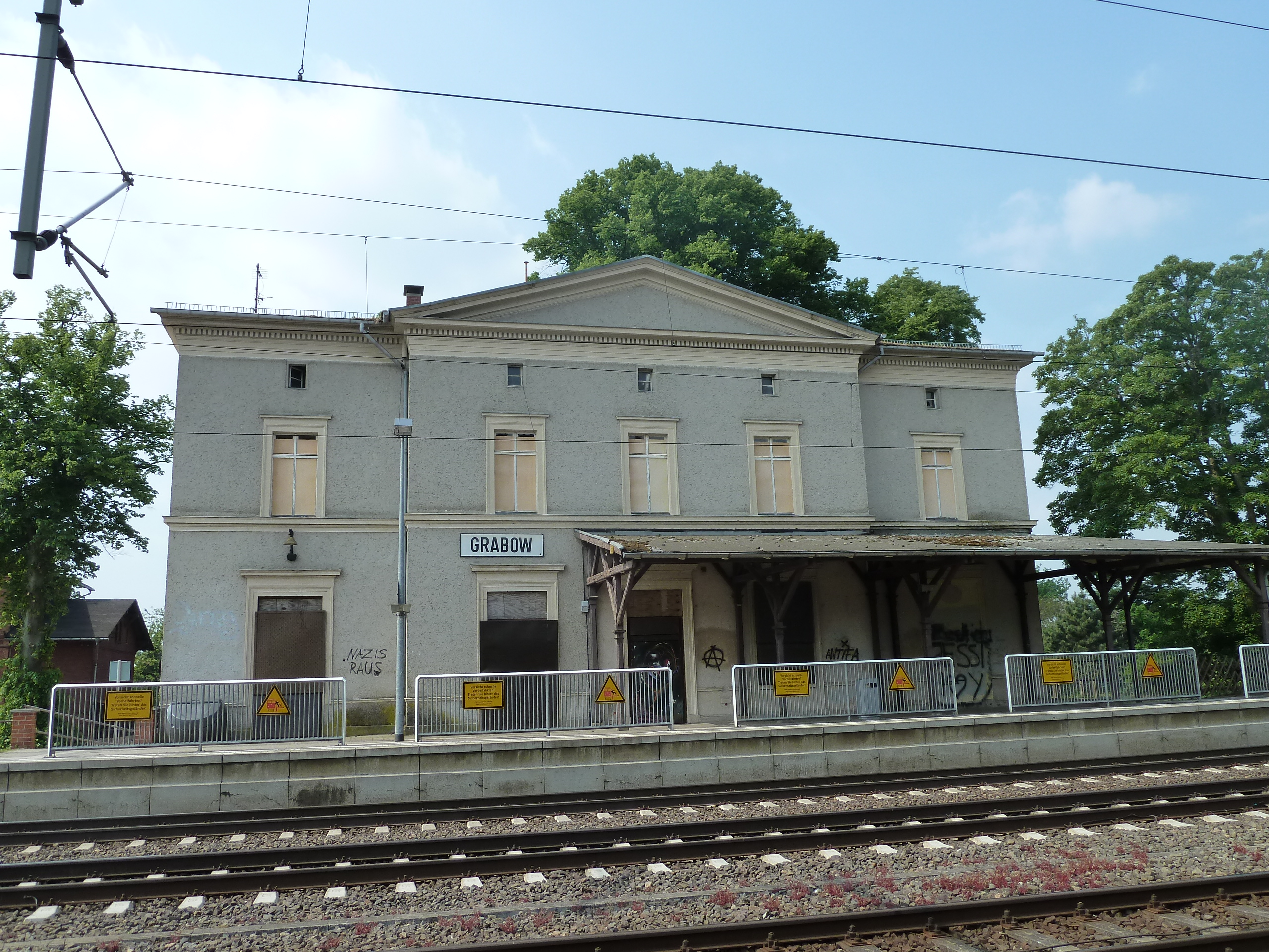 Grabow station building, close to Ludwigslust, line Berlin-Hamburg